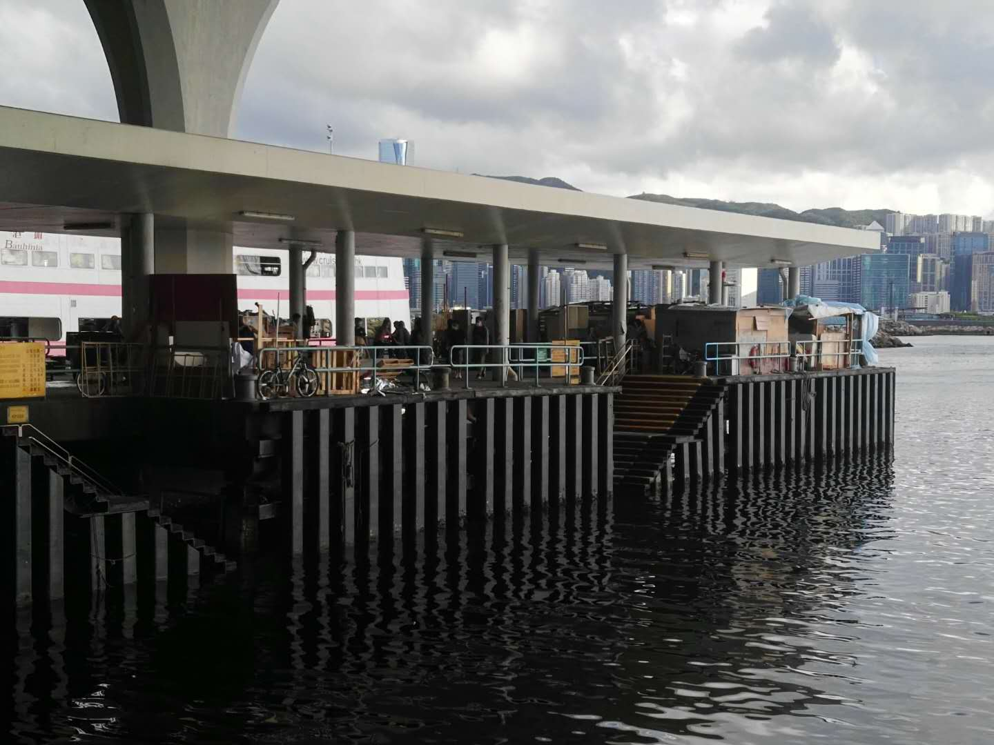 2020 July Kwun Tong Public Pier